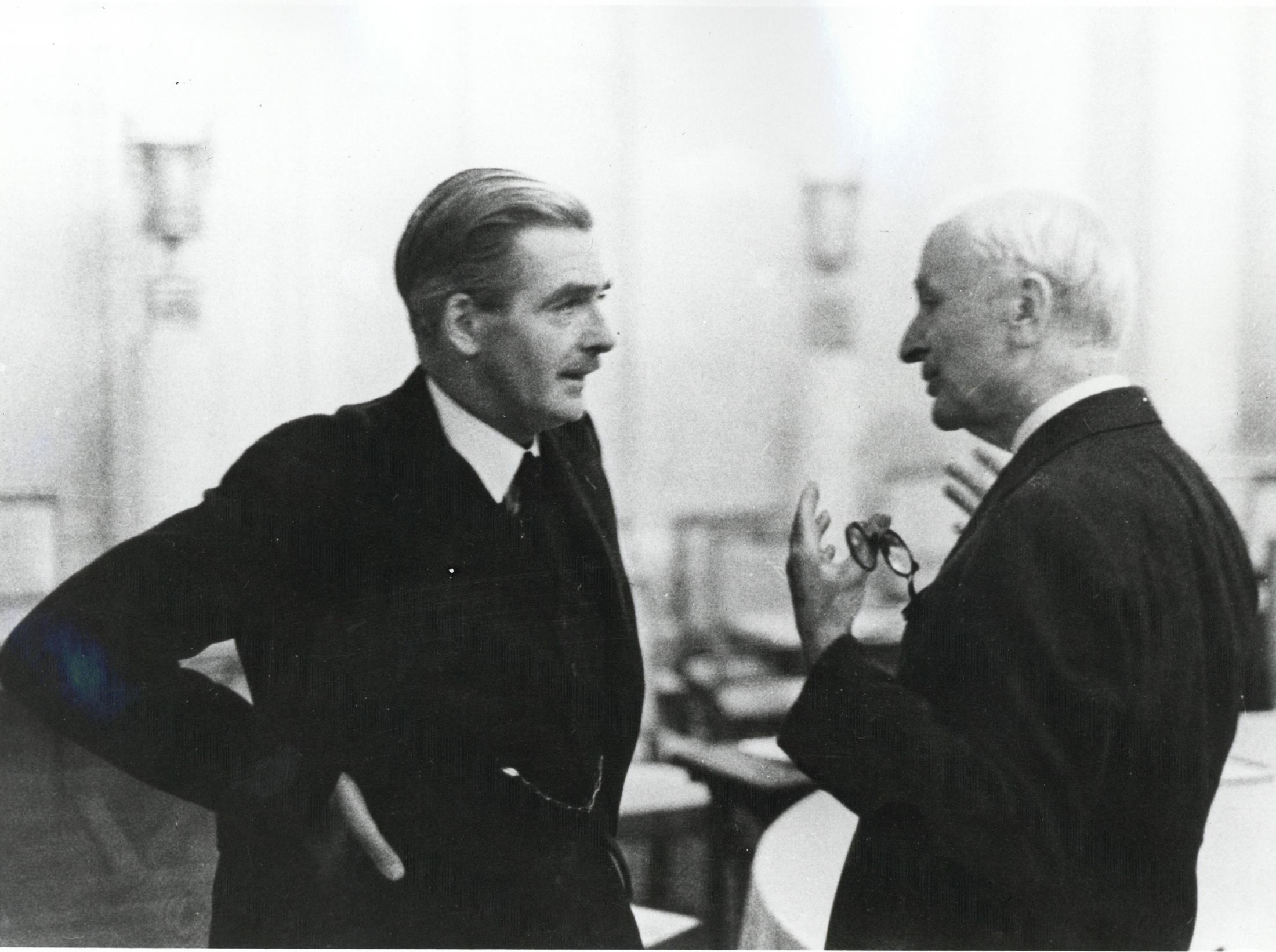 U.S. Secretary of State Cordell Hull conversing with British Foreign Minister Anthony Eden. During WWII, the United States cooperated closely with its British ally.